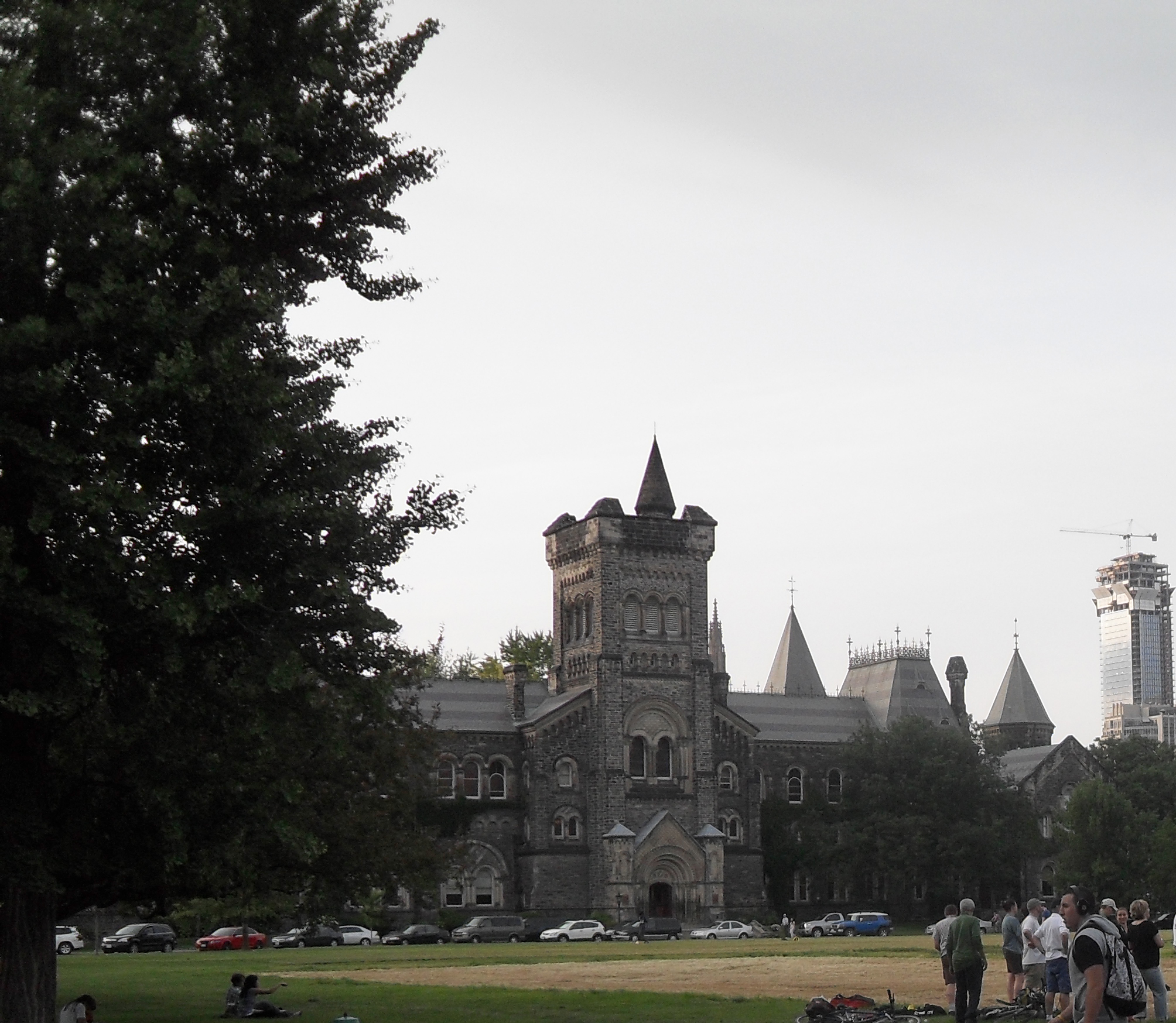 University College, University of Toronto, Toronto, ON.